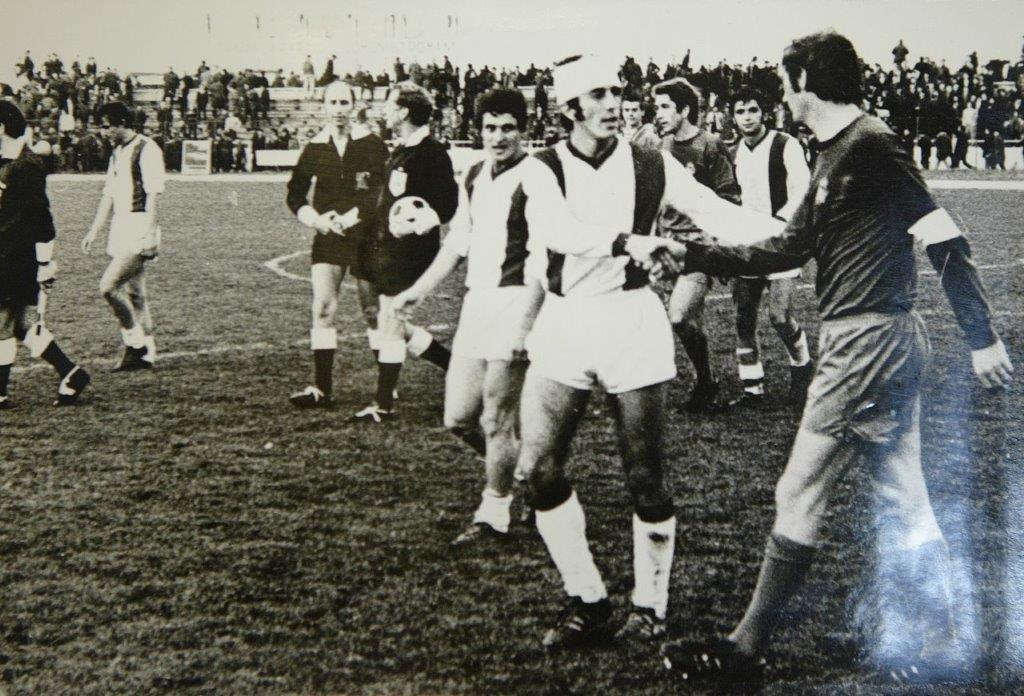 Remus Vlad and Zoco in 1972, after FC Arges-Real Madrid.